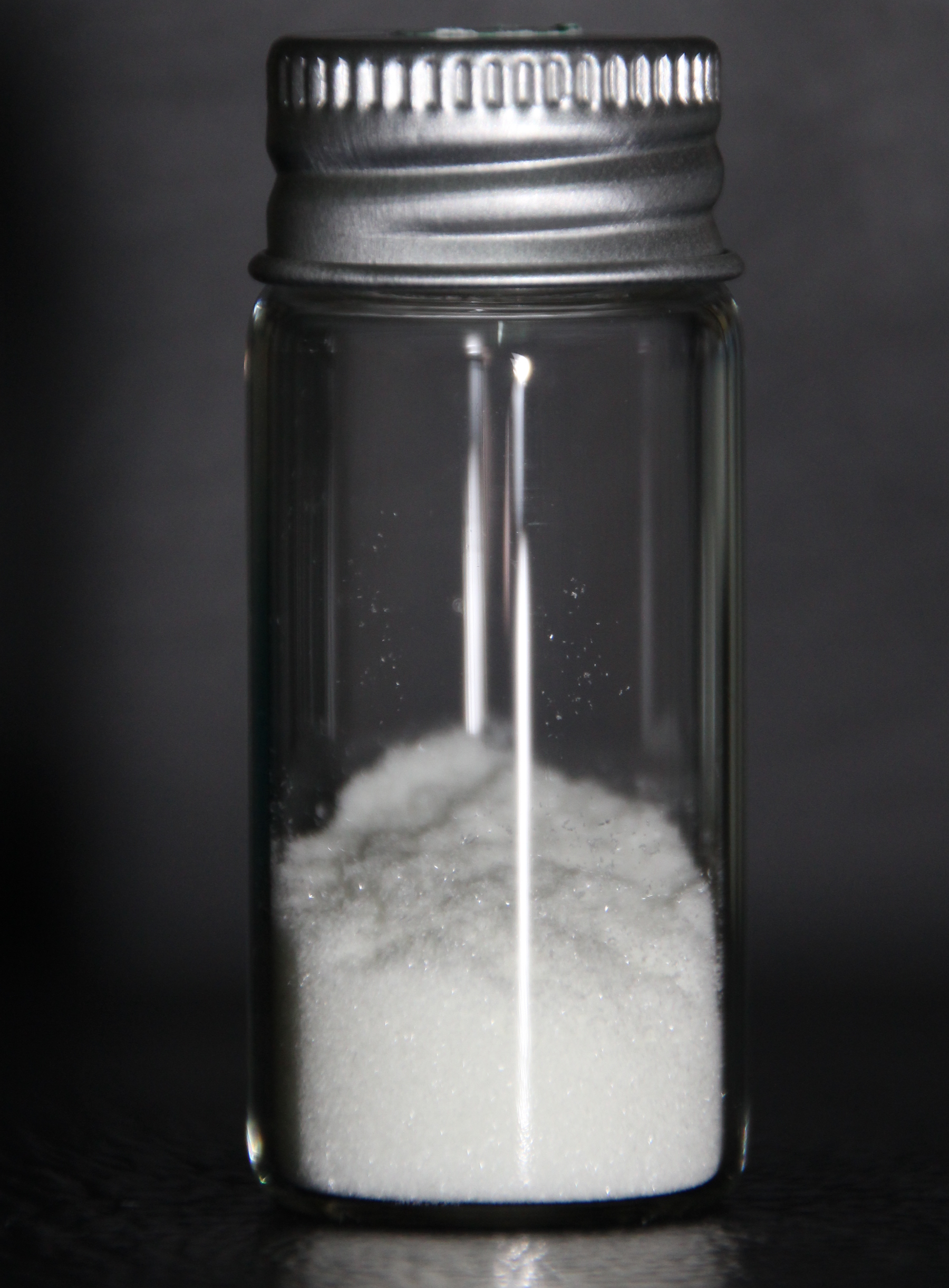 Sample of Chloramphenicol